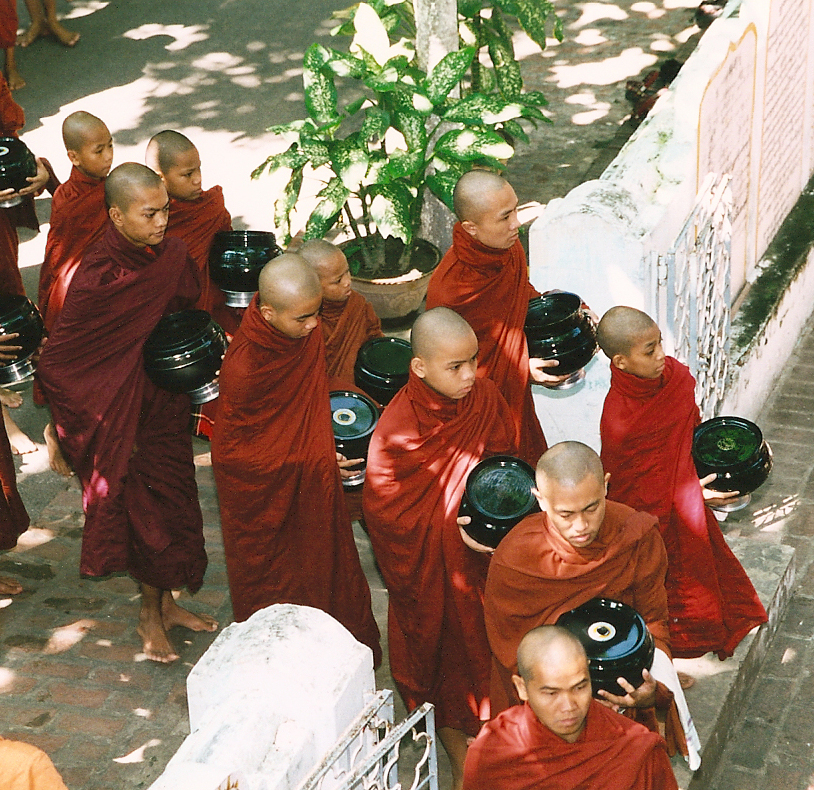 Monks at Mahagandhayon Monastic Institution in Amarapura carry alms bowls (thabeik) in order to receive alms.မြန်မာဘာသာ: အရမပူရမြို့၏ မဟာဂန္ဓရုံကျောင်းတွင် ကိုရင်များသည် သိပိတ်နှင့် ဆွမ်းခံချသည်။